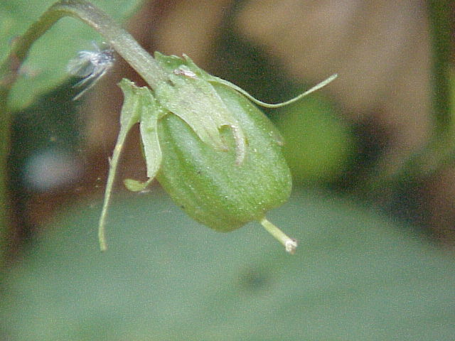 Species: Viola canina Family: Violaceae Image No. 1